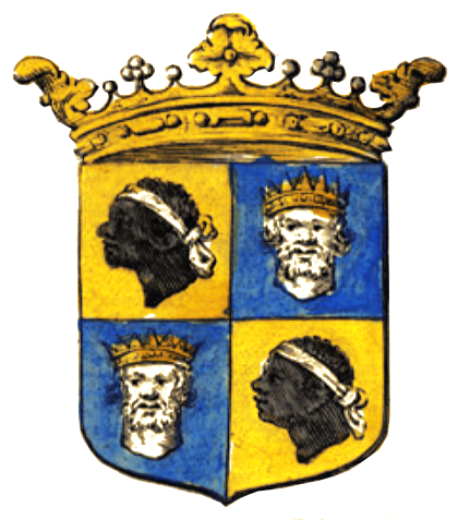 COA of Algarve